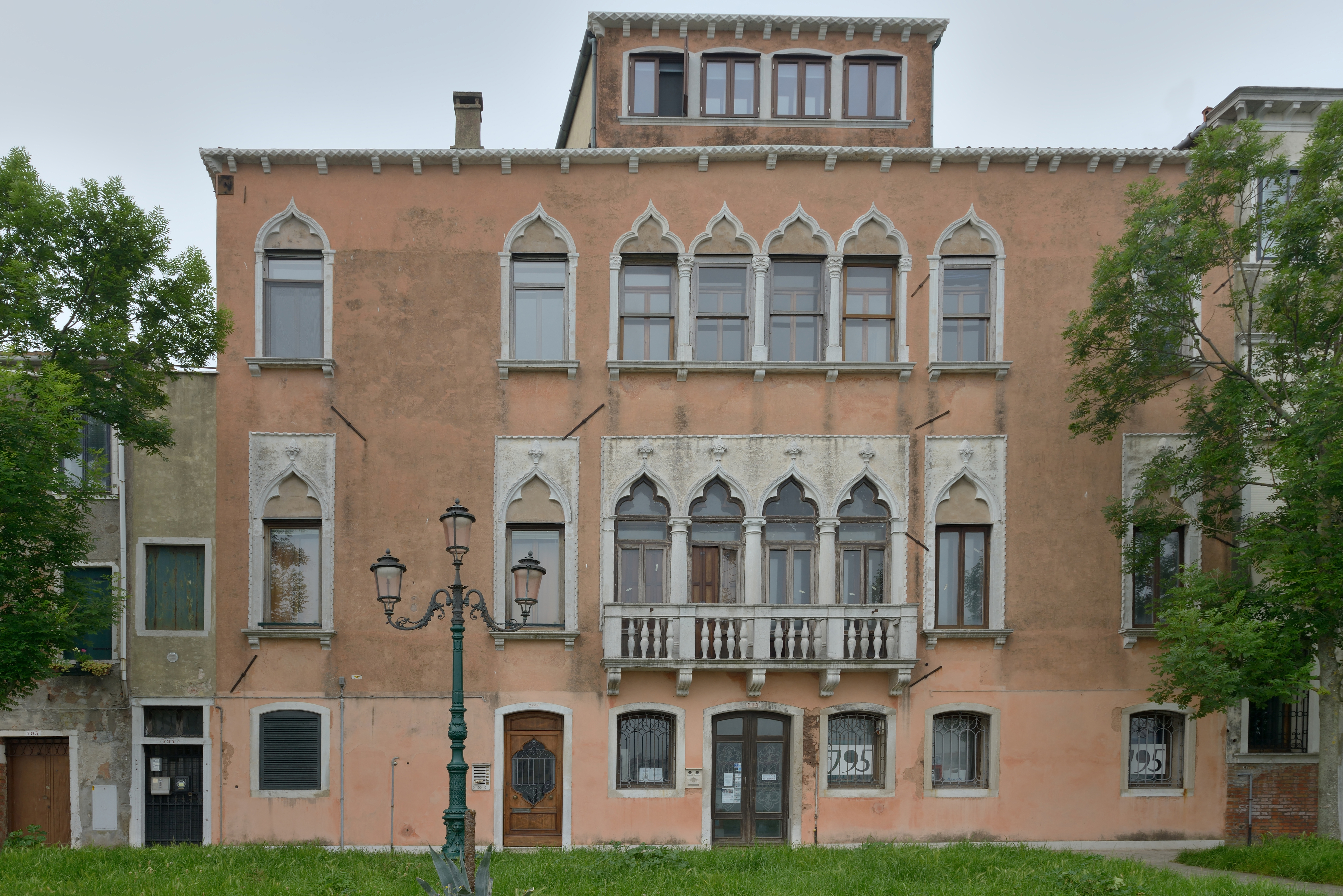 Palazzo Foscari on Fondamenta San Biagio on the Giudecca island in Venice.